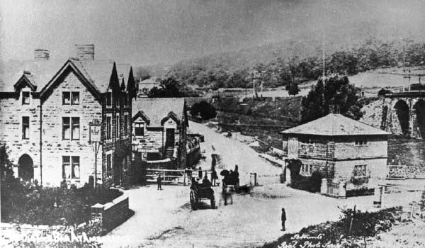 The Toll Bar, Ambergate - Junction of Matlock Road, Ripley Road and Derby Road. Show the Hurt Arms Pub and the tollhouse. This postcard says "The Ambergate or the Cromford and Belper Turnpike Trust"